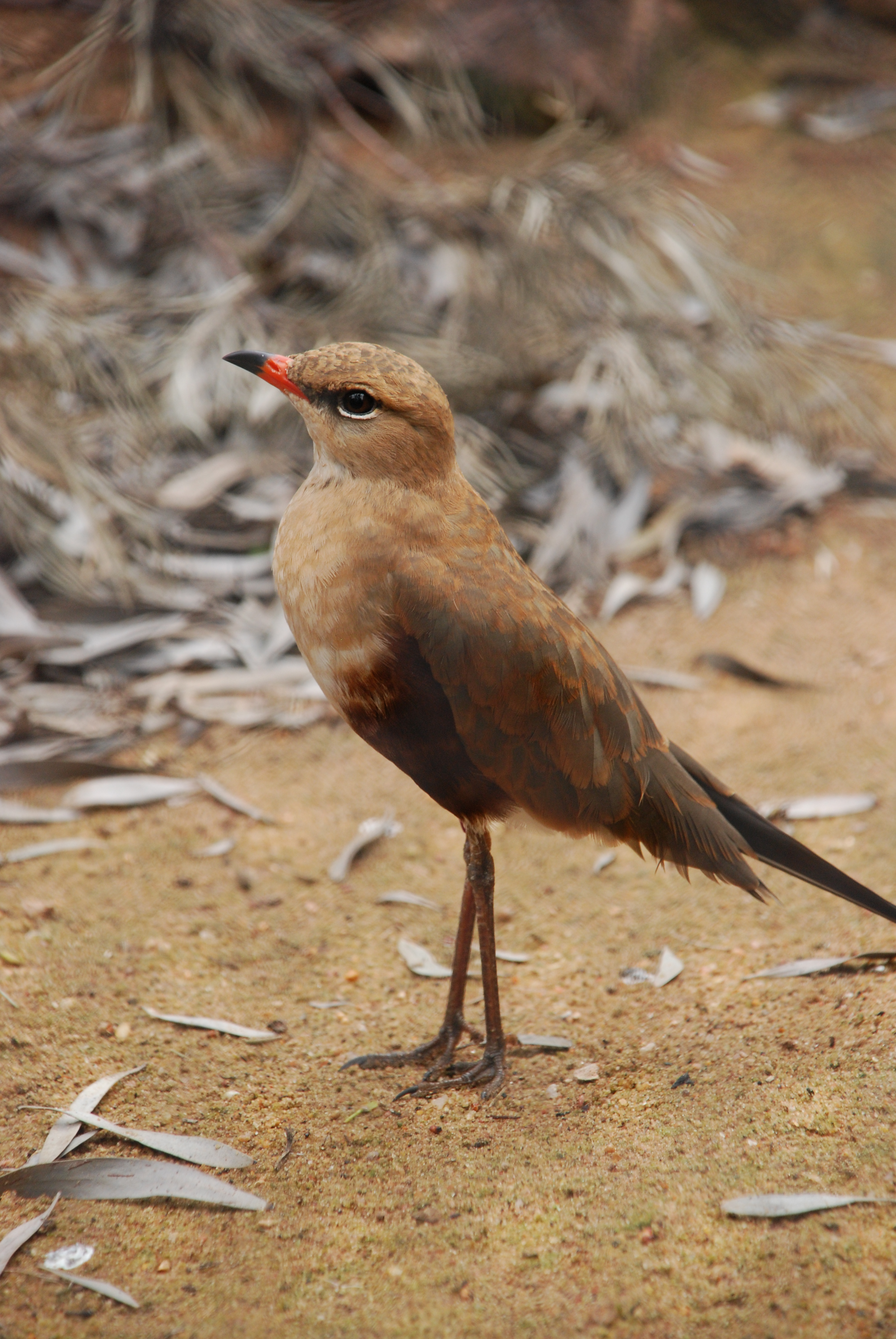 This Australian Pranticole was photographed in the Adelaide Zoo